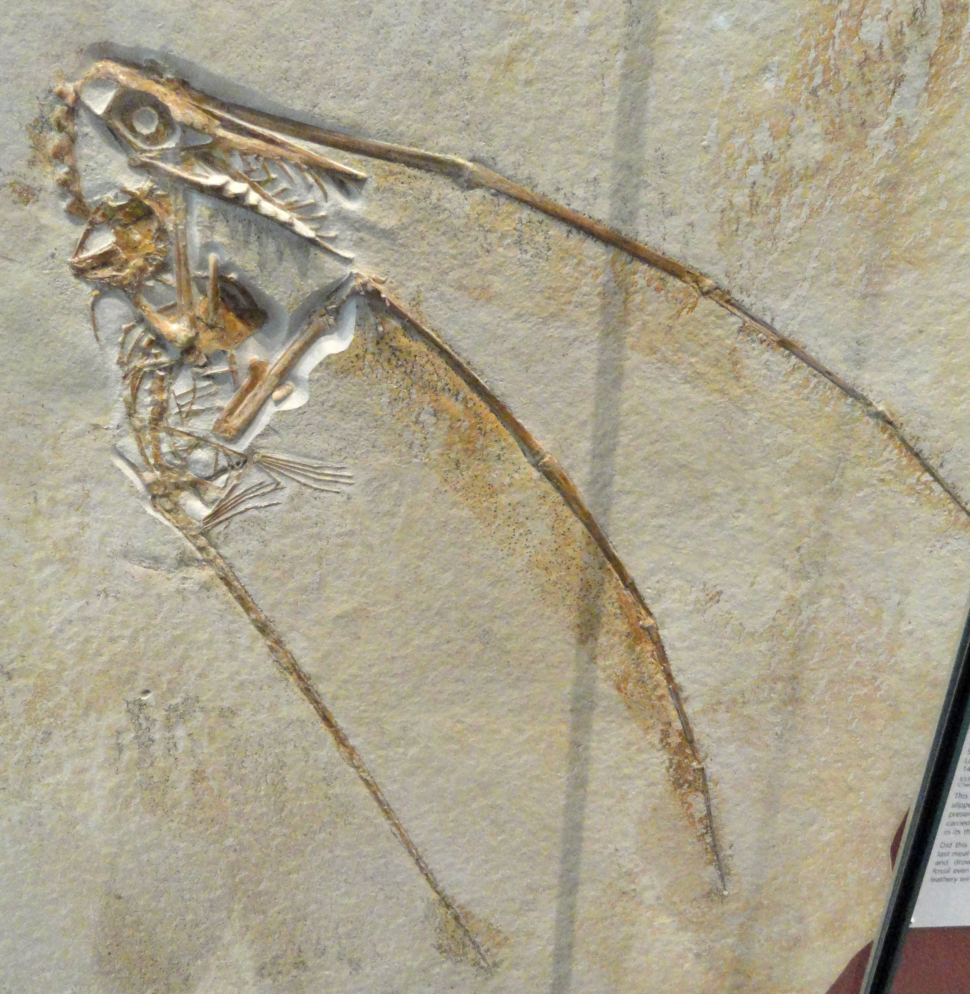 Exhibit in the Royal Ontario Museum, Toronto, Ontario, Canada. This exhibit is old enough so that it is in the public domain, and photography was permitted in the museum. I took this photograph and release it into the public domain.